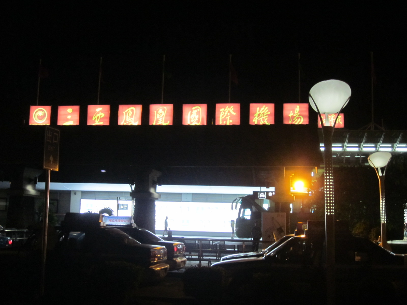 Sanya Phoenix International Airport